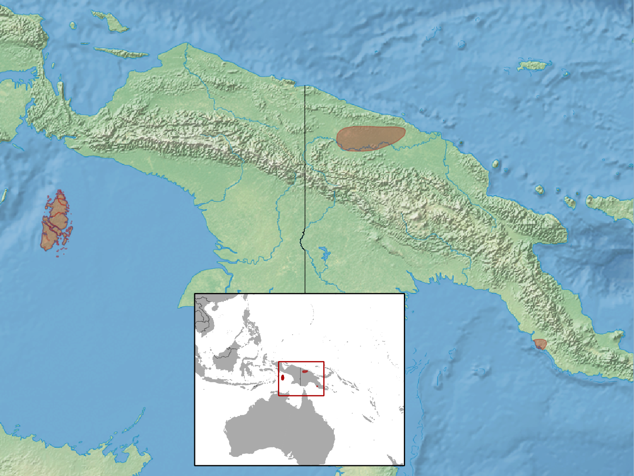 geographic distribution of Cryptoblepharus novaeguineae